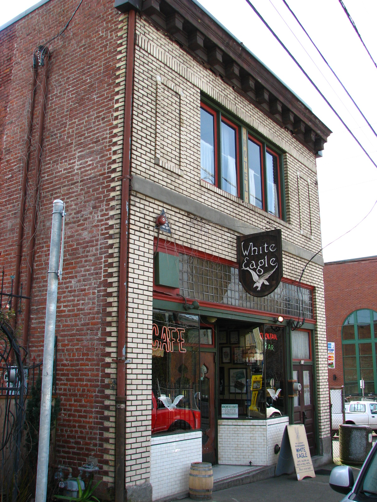 The historic Hryszko Brothers Building, located at 836 North Russell Street, Portland, Oregon, United States, is listed on the US National Register of Historic Places. The building is currently in use as a restaurant, bar, music venue, and hotel by the McMenamins chain.